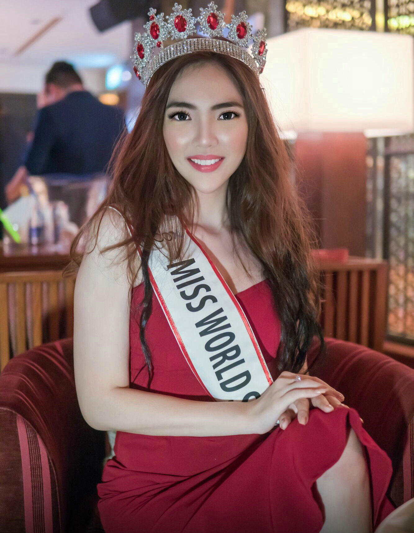 Vanessa Peh Ting Ting Profile Image